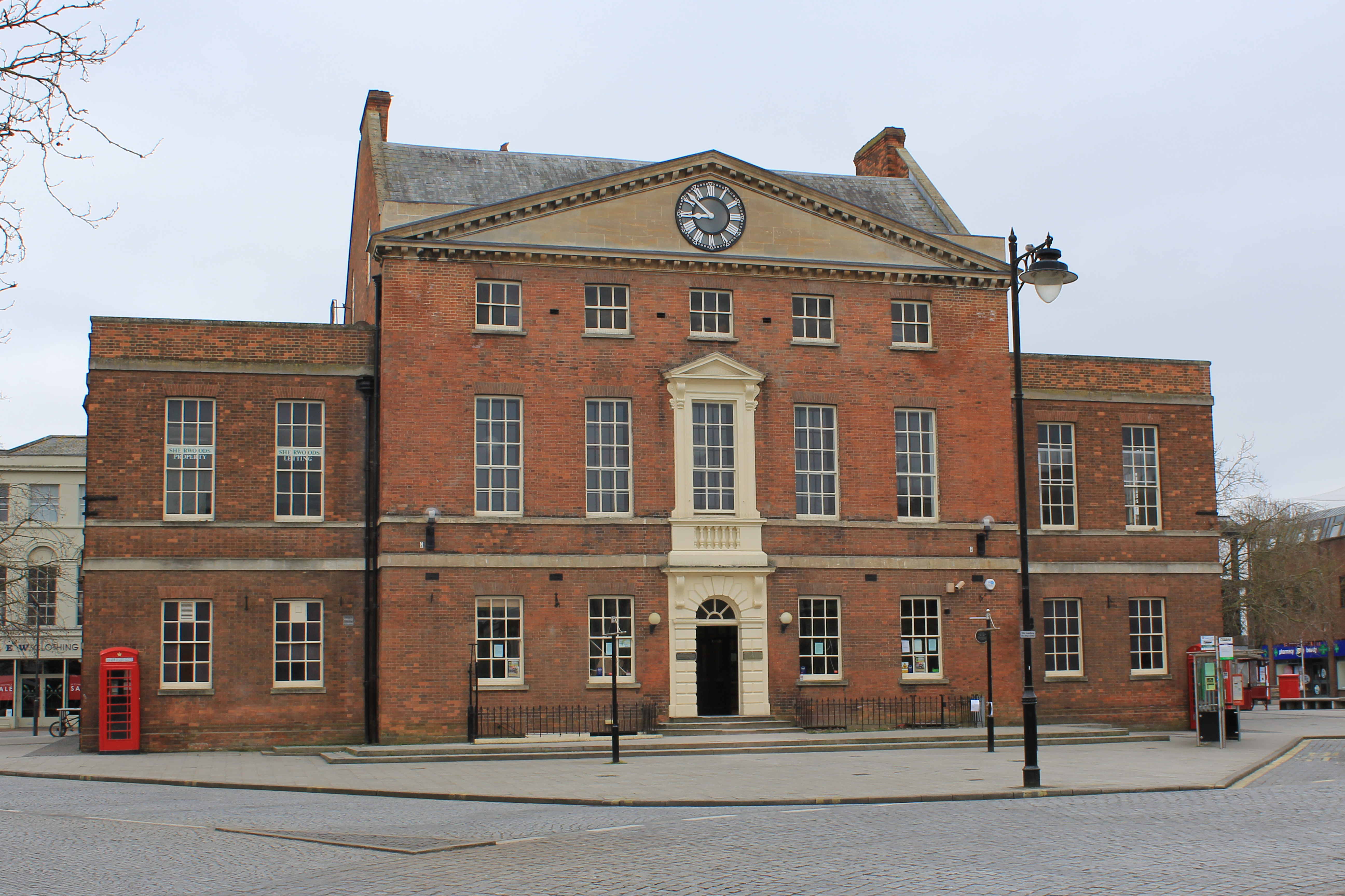 The Market House in Taunton, a Grade II* listed building.